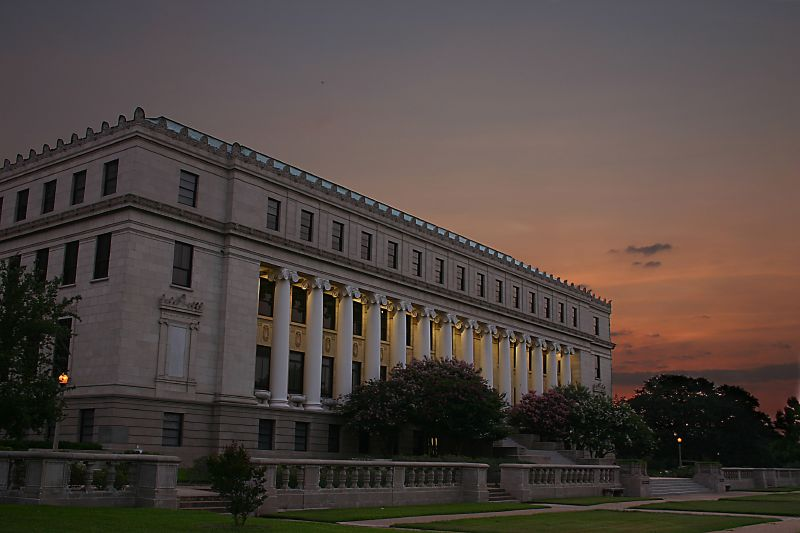 Administration Building at Texas A&M. 2 pictures overlayed with a Canon 300D.